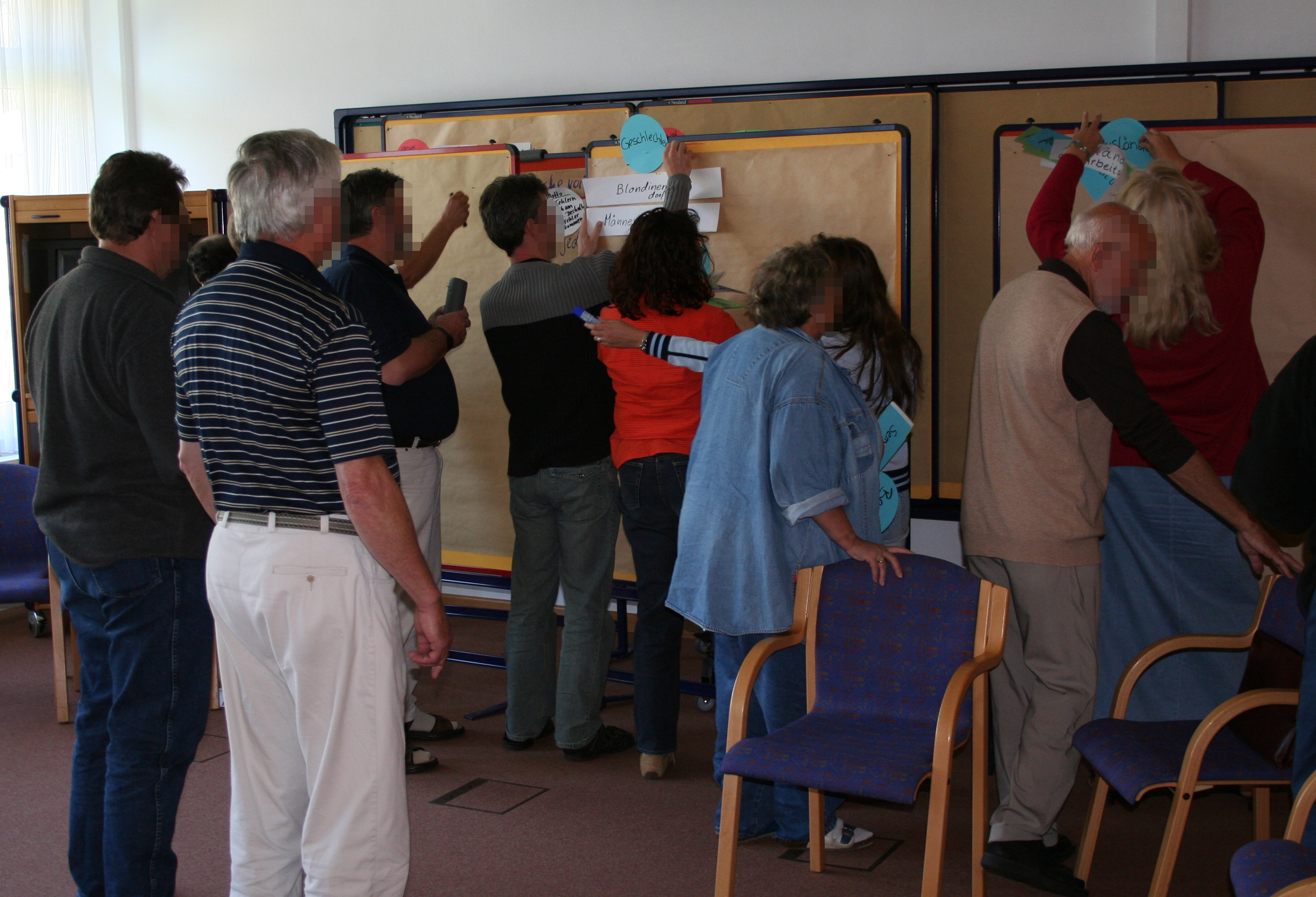 Seminar-Group clustering the collected theses of the participants